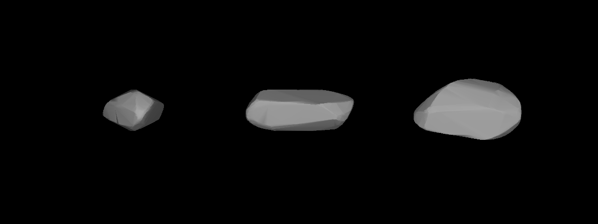 A three-dimensional model of 1568 Aisleen that was computed using light curve inversion techniques.